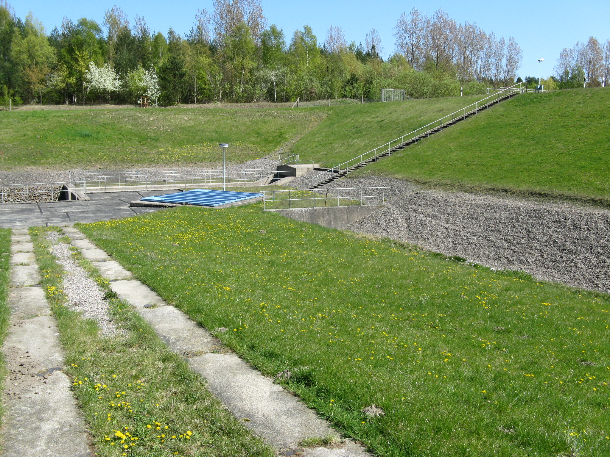 Dam at Reservoir Stausee Farpen in Alt Farpen, disctrict Nordwestmecklenburg, Mecklenburg-Vorpommern, Germany